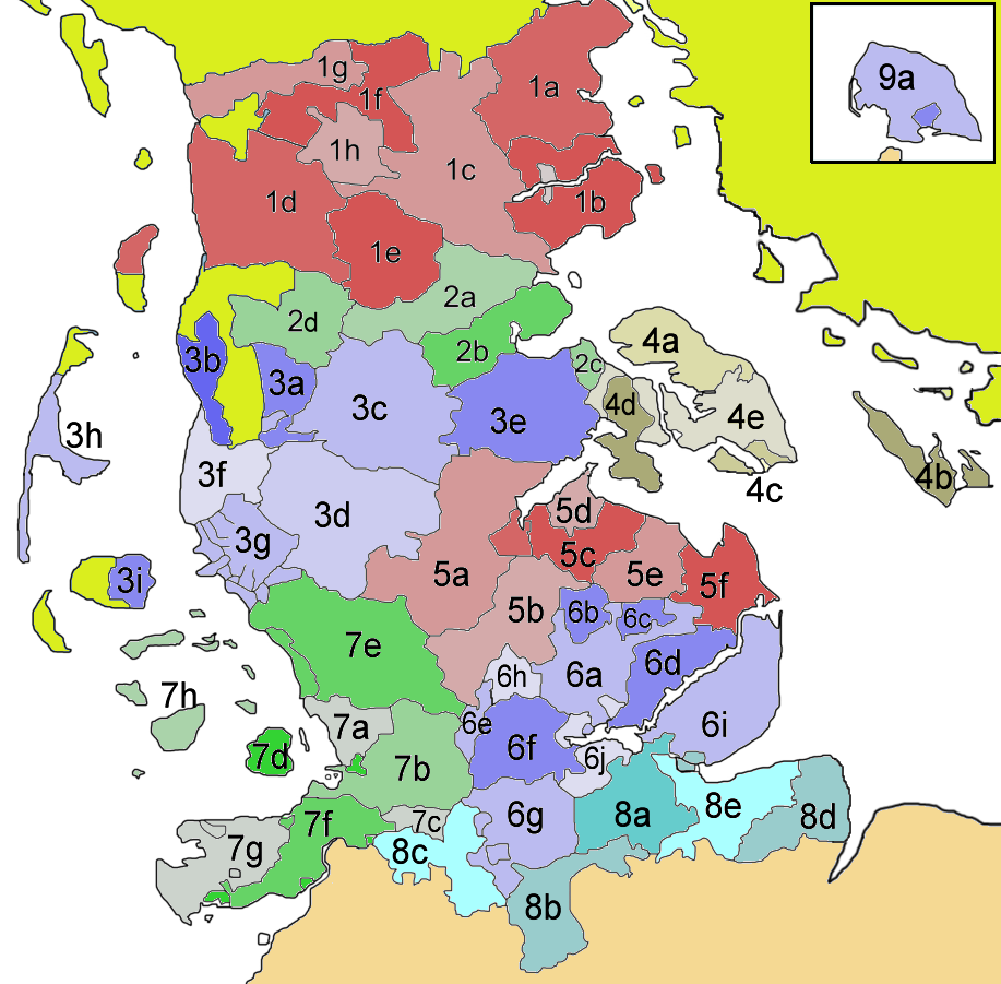 This map shows the administrative areas within the duchy of Schleswig before 1864.